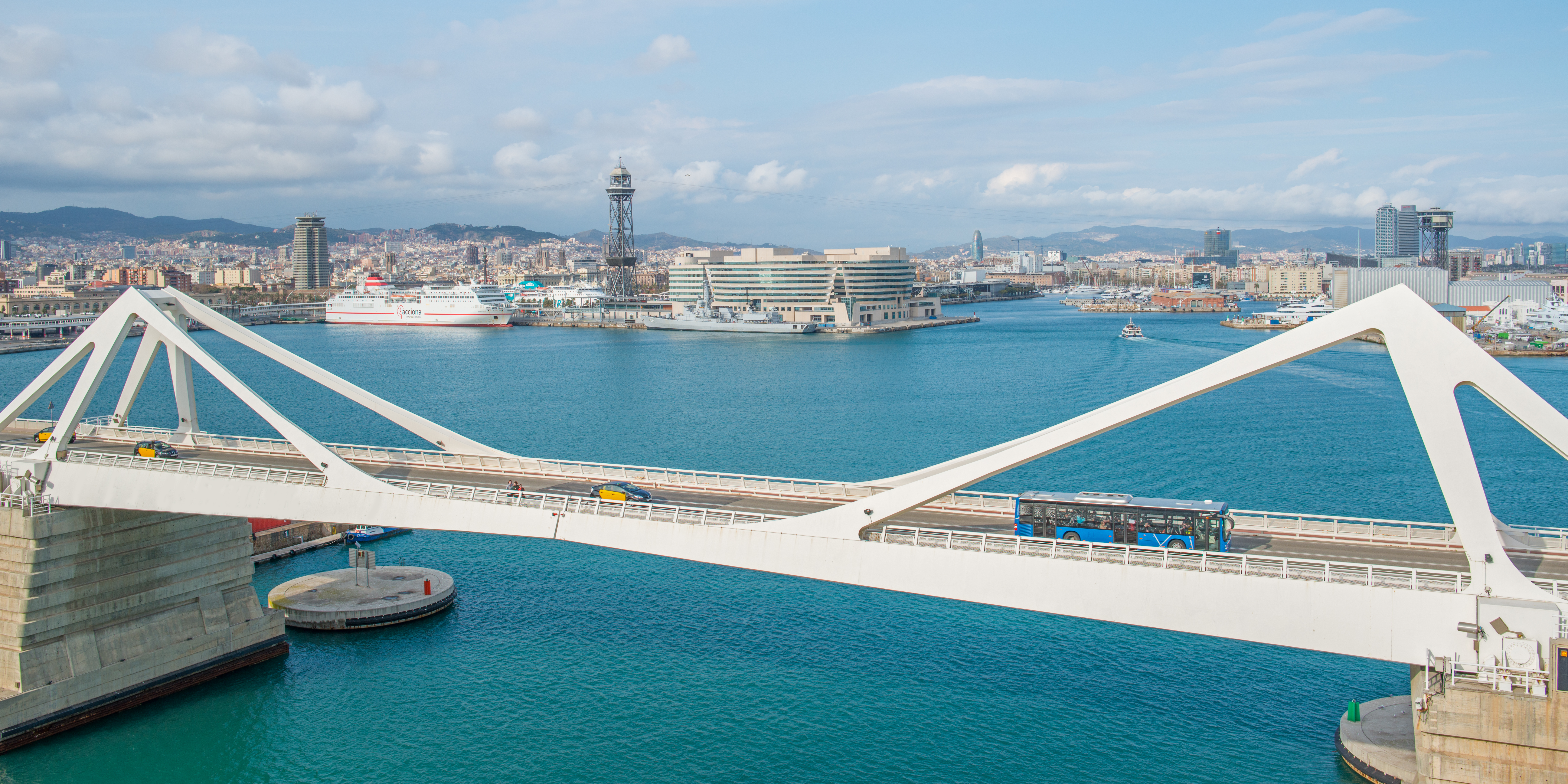 Barcelona Spain February 2013